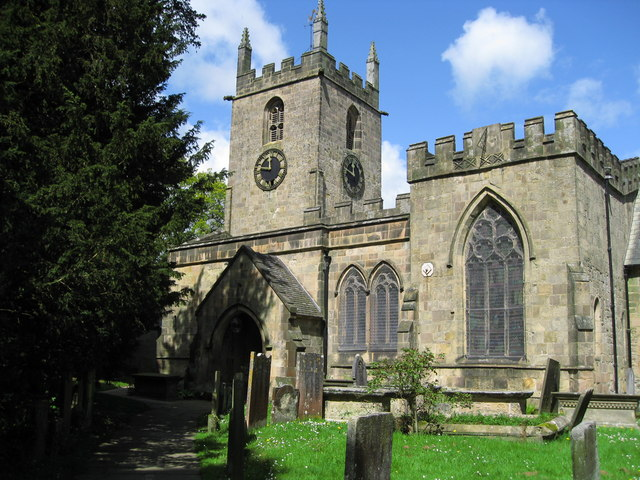 St Helens Church St Helens church in Darley Dale. The Yew tree in front of the porch is reputed to be 2000 years old.